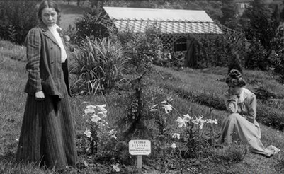 Adela Pankhurst and Annie Kenney by a tree planted by Emmeline Pankhurst. This picture was taken by Colonel Linley Blathwayt and was stored on glass negatives. The Blathwayt's home of Eagle House way the home of Linley, Emily, William and Mary Blathwayt who all actively supported the suffragette cause. Nearly all the prominent UK suffragettes stayed with them and these photos and dozens of trees were planted to commemorate their visits. Col. Linley Blathwayt took these pictures between 1908 and 1912. He died in 1919. The pictures are made available in larger formats by . Think this one is May 1909